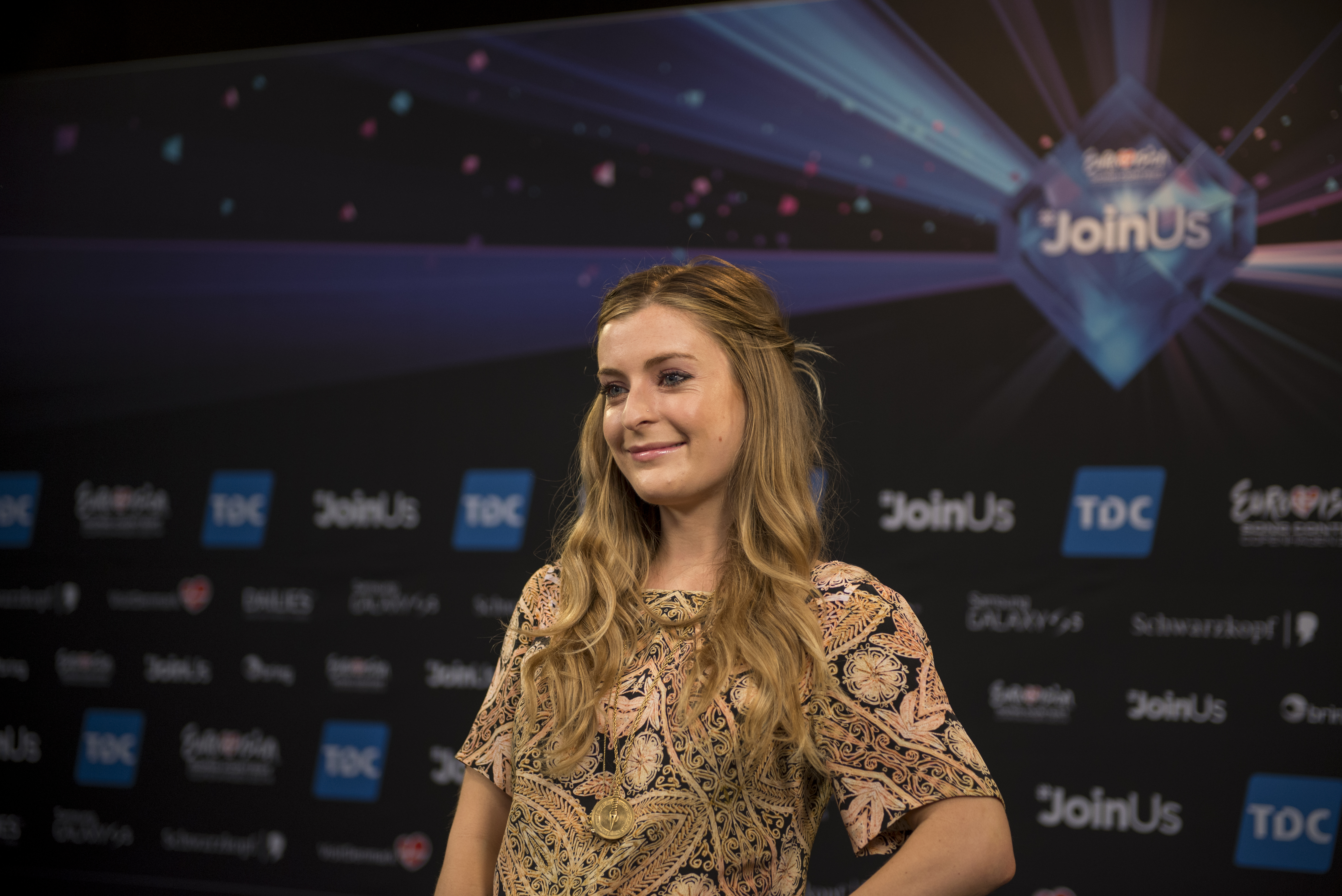 Molly Smitten-Downes at a press conference during the Eurovision Song Contest 2014 Copenhagen. (Help translate this text)